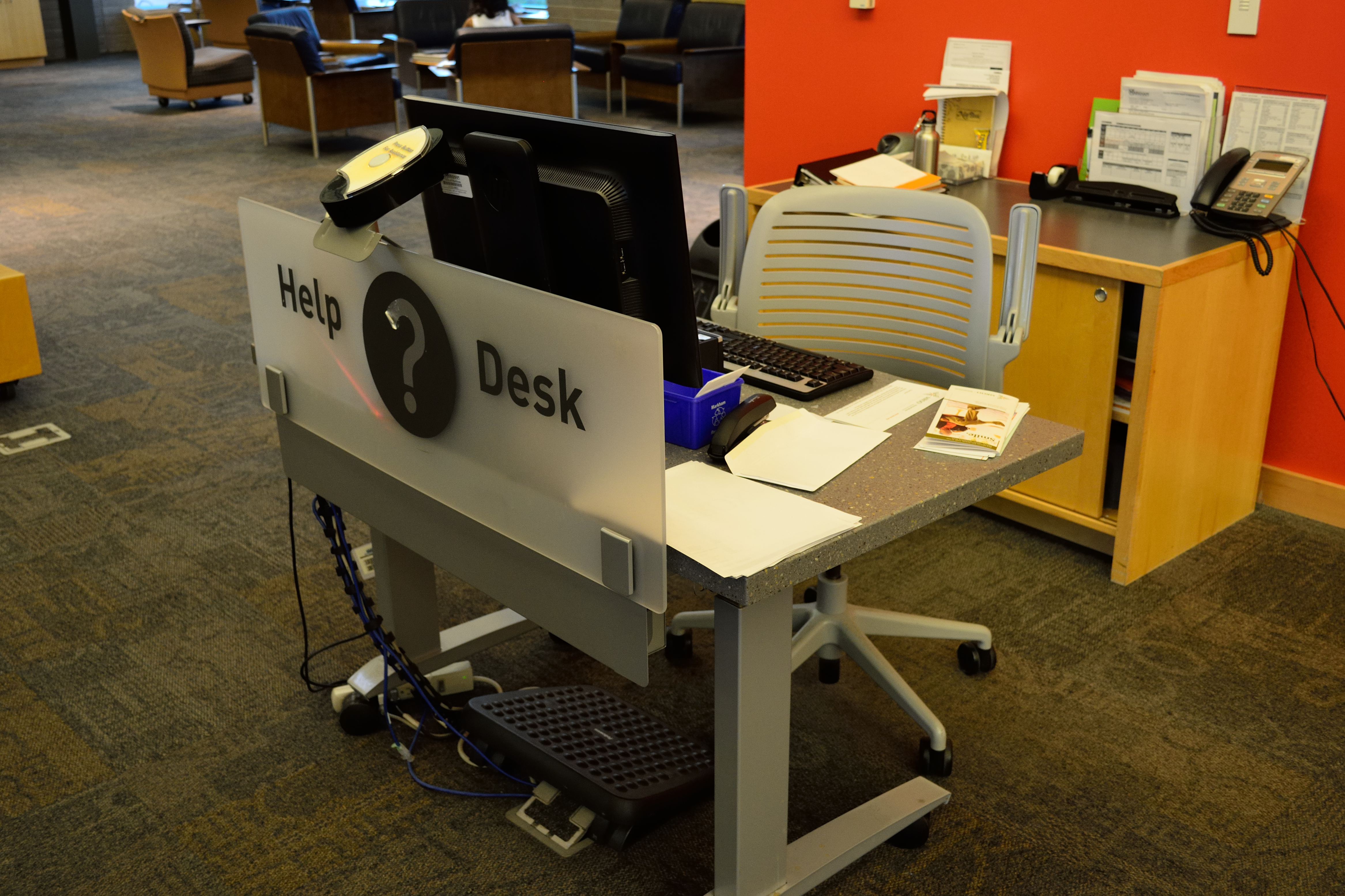 A help desk in a public library